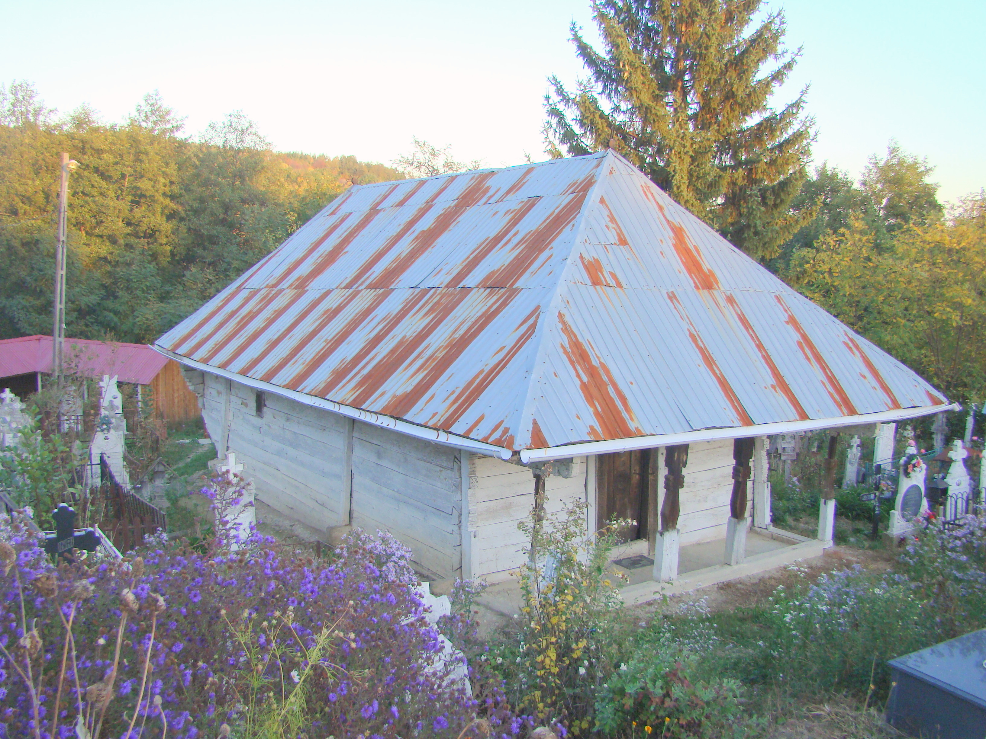 Wooden church in Crasna-Ungureni, Gorj county, Romania